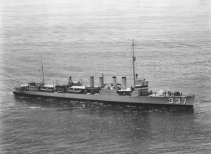 The U.S. Navy destroyer USS Zane (DD-337) at sea, circa the 1930s.